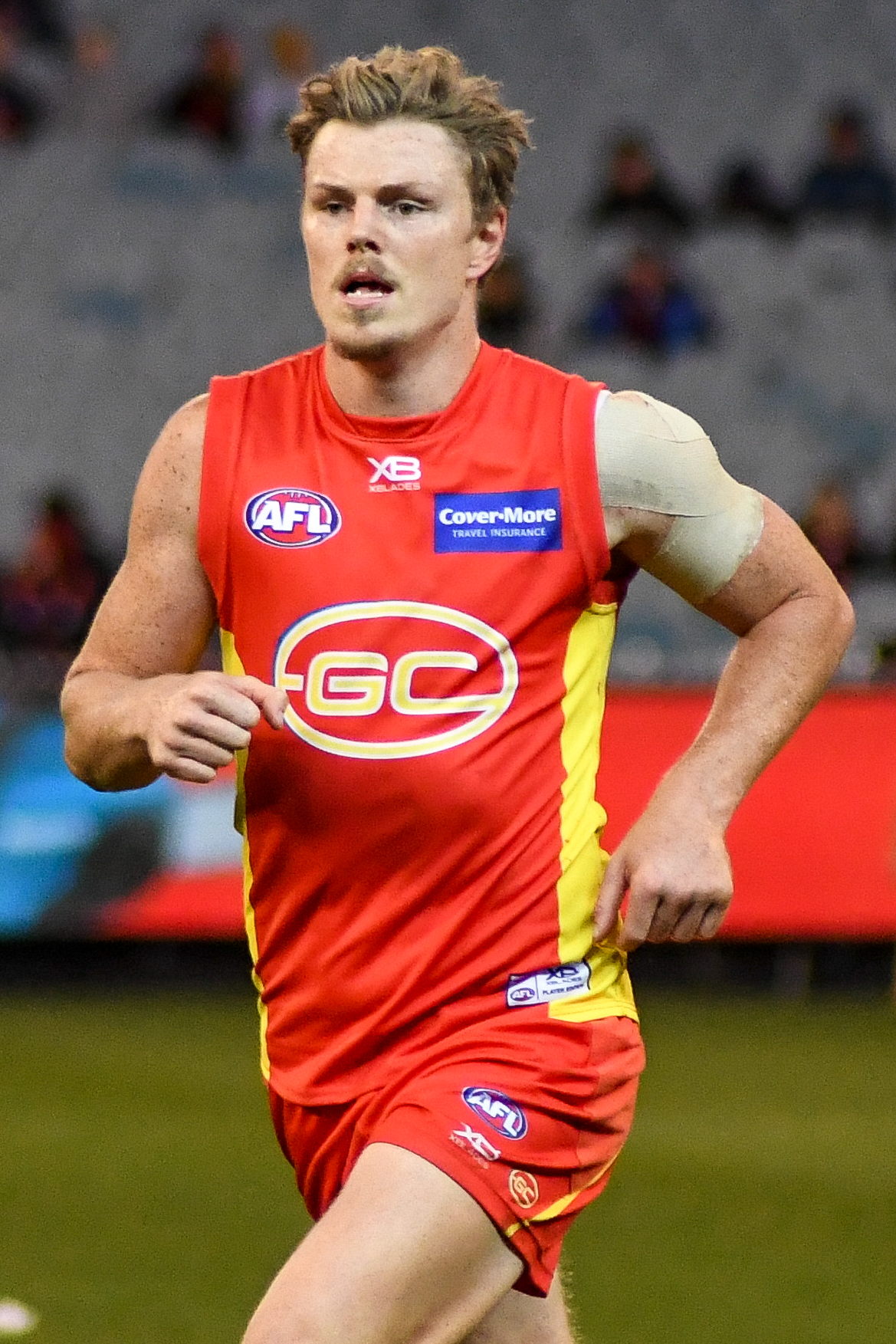 Nick Holman of Gold Coast during the 2018 AFL round 20 match between Melbourne and Gold Coast at the Melbourne Cricket Ground on Sunday, 5 August 2018 in Melbourne, Victoria.